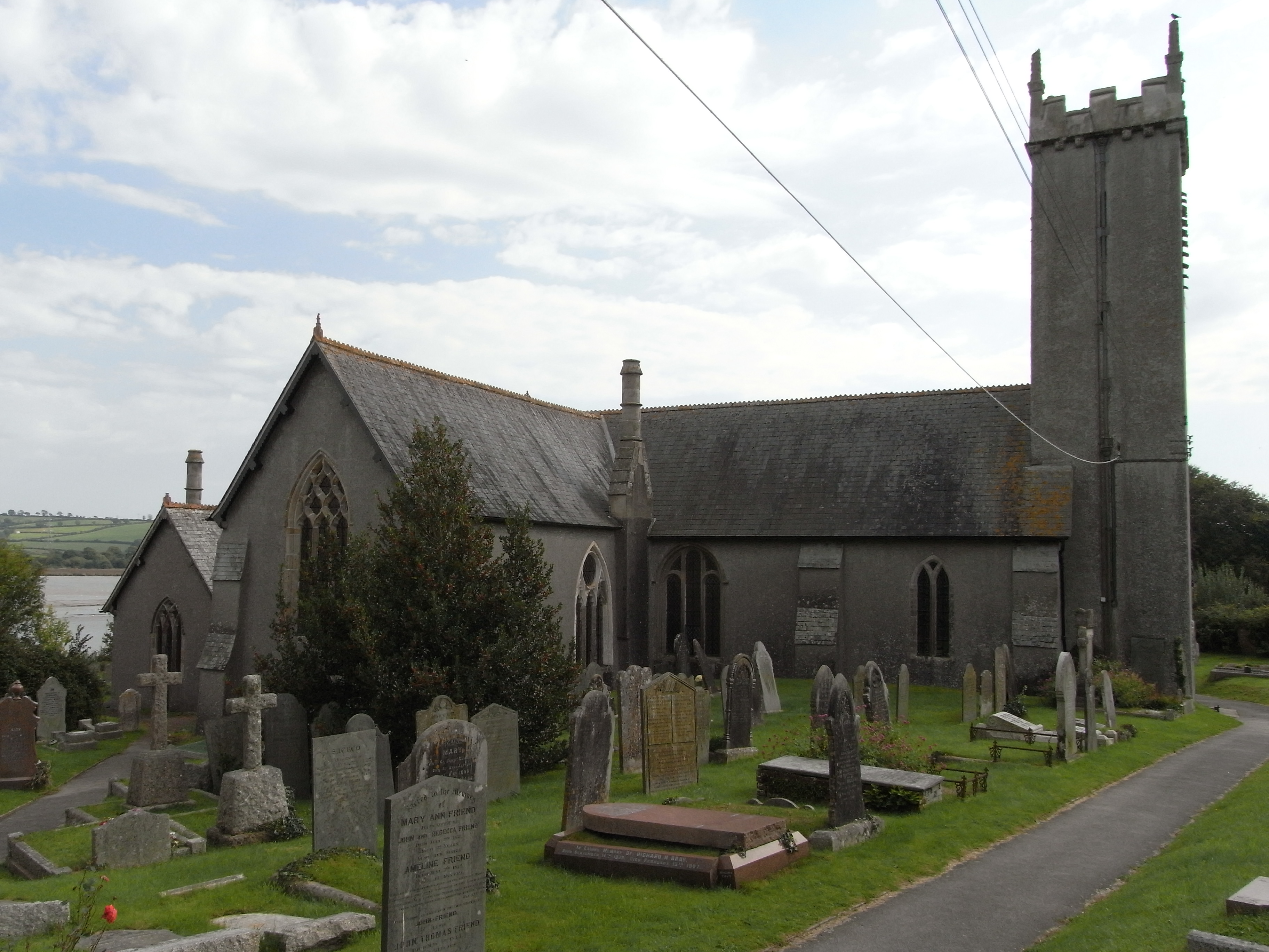 Bere Ferrers Church, Devon, viewed from NW, with River Tavy in background.